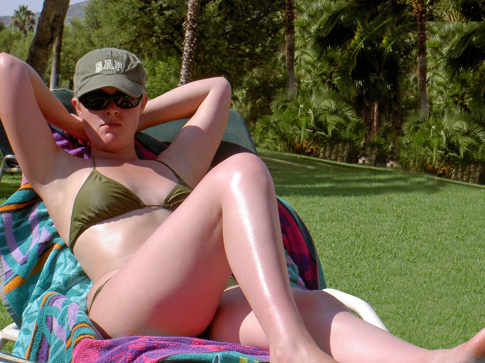 Sun bath